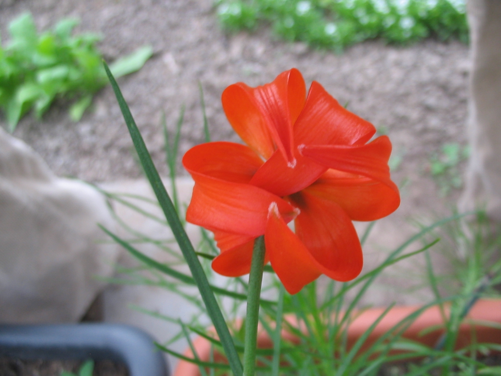 Backside Flower of Lilium pumilum